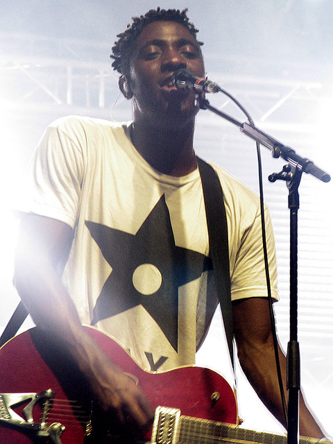 Okereke on guitar.